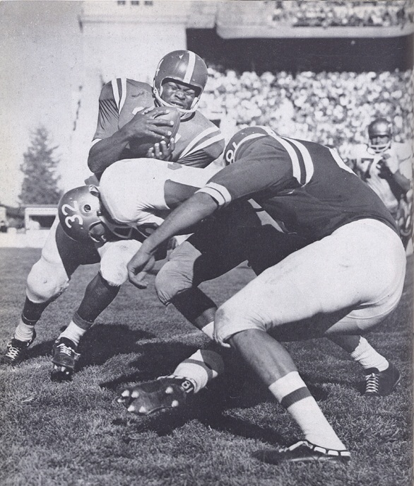 Nebraska Cornhuskers halfback Clay White tackle don an end run, 1958